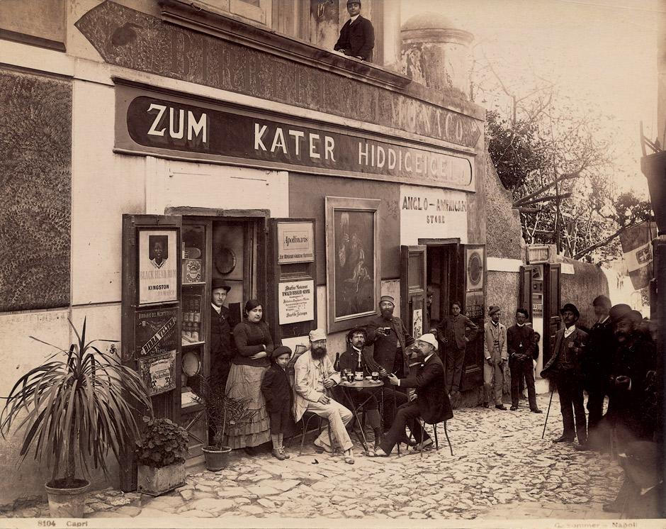 "Capri, Zum Kater Hiddigeigei". 1886. Albumen print. 19 x 25 cm. Photographer's name, title and number in the negative in lower edge.